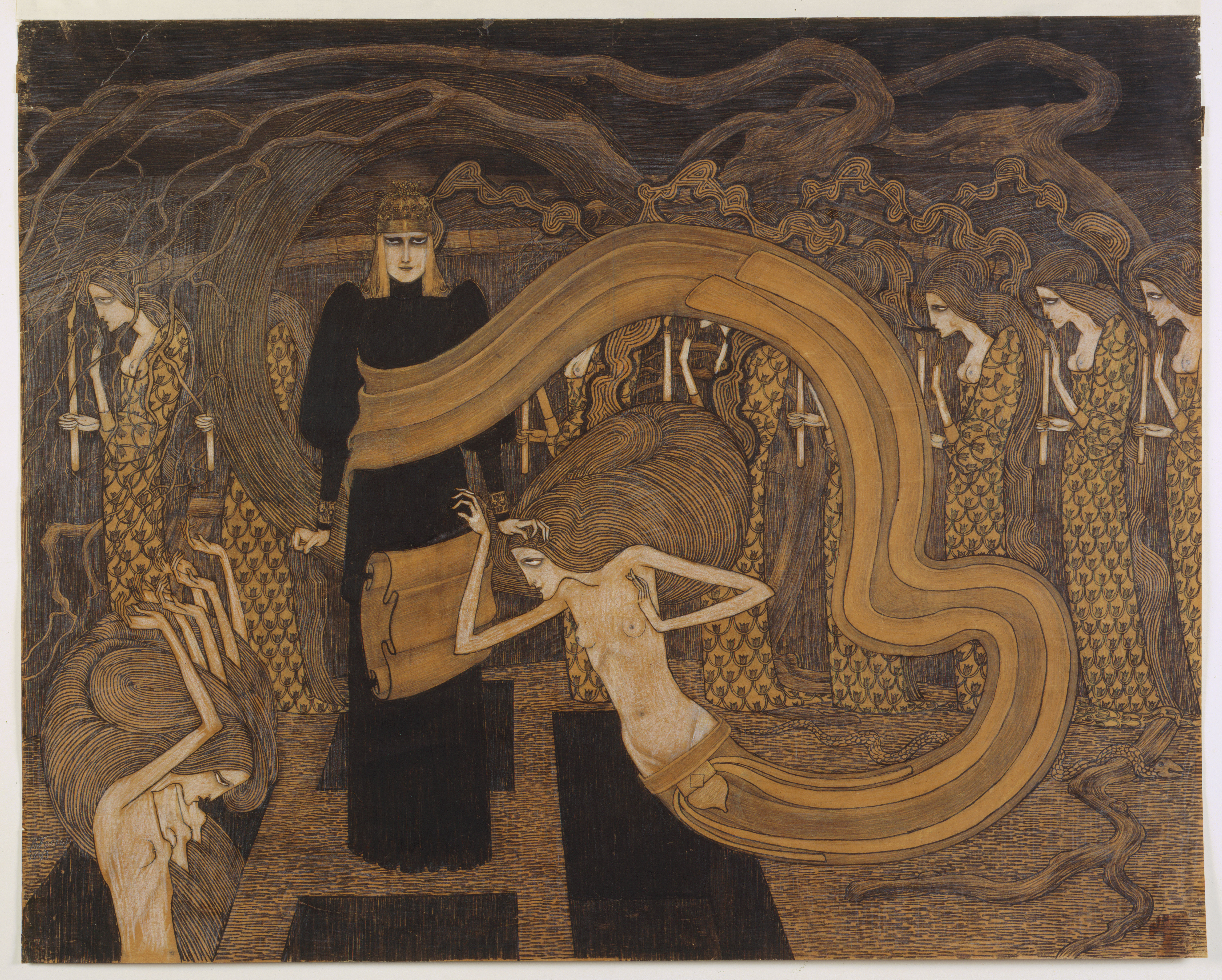 Fatalism.